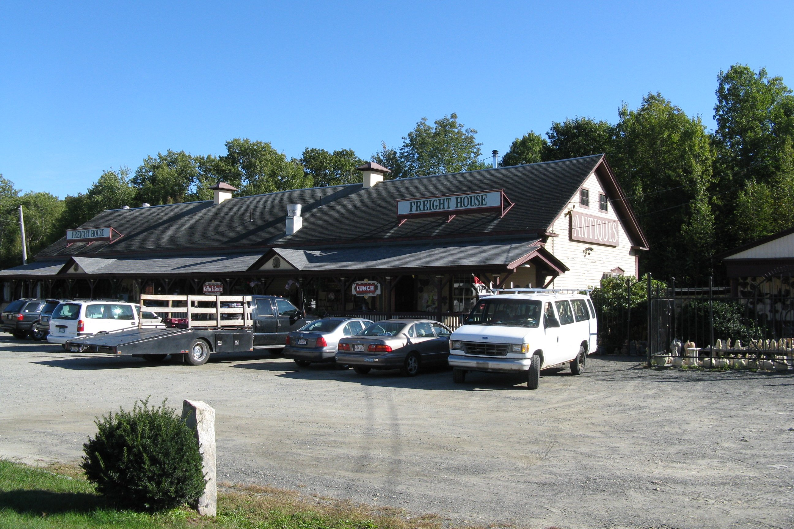 Freight House, Erving Massachusetts